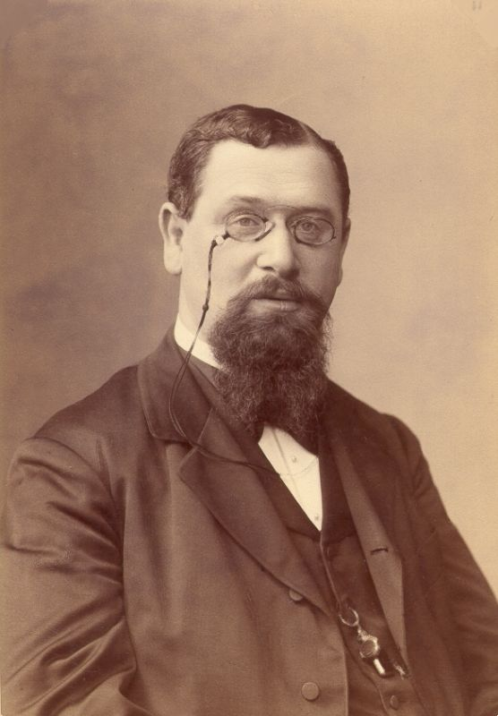 Max Wolff